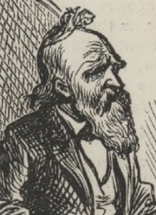 Edwin Flye (Maine Congressman)